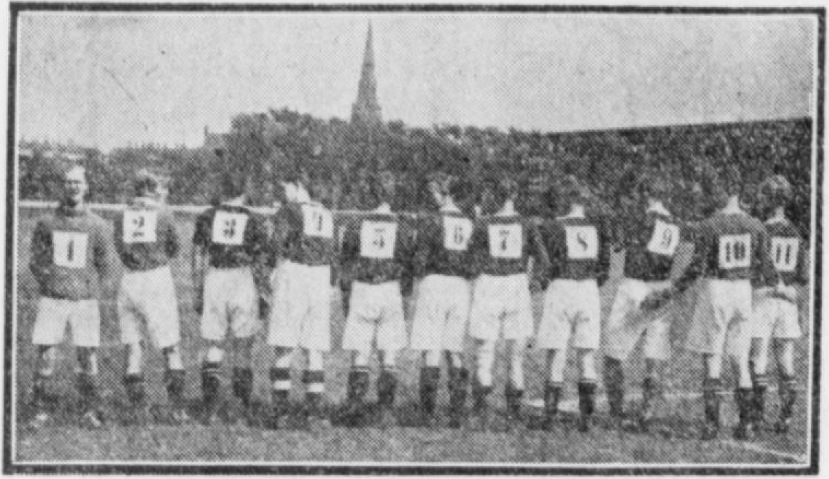 Pre-match line-up of the Handelsstandens Boldklub players highlighting their squad numbers — Picture shows Handelsstandens Boldklub's eleven players lined up, starting with the goalkeeper on the left, and the remaining outfield players turning their backs to the camera. The photo was taken before the beginning of the first round game of 1927 KBUs Pokalturnering against Østerbros Boldklub on 28 August 1927.